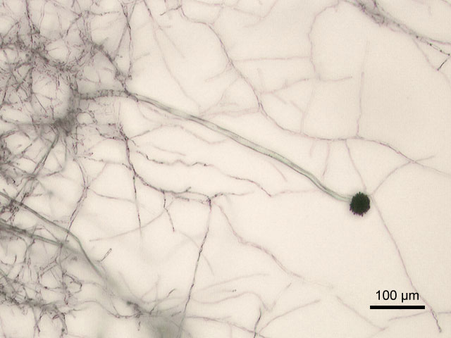 Microscopic image (100-fold magnification) of Aspergillus niger, grown on Sabouraud agar medium.